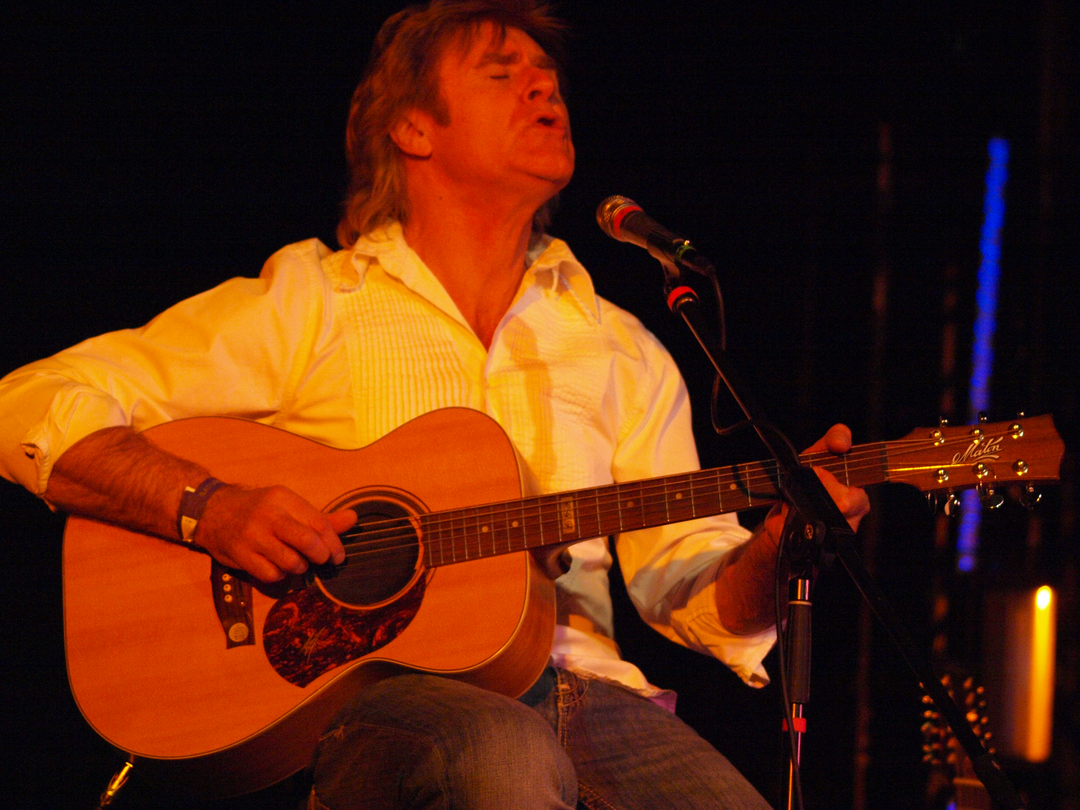 These are from the Acoustic Festival of Great Britain which was held from Friday 20th to Sunday 22nd May, 2011 at Uttoxeter racecourse, Staffordshire, England.